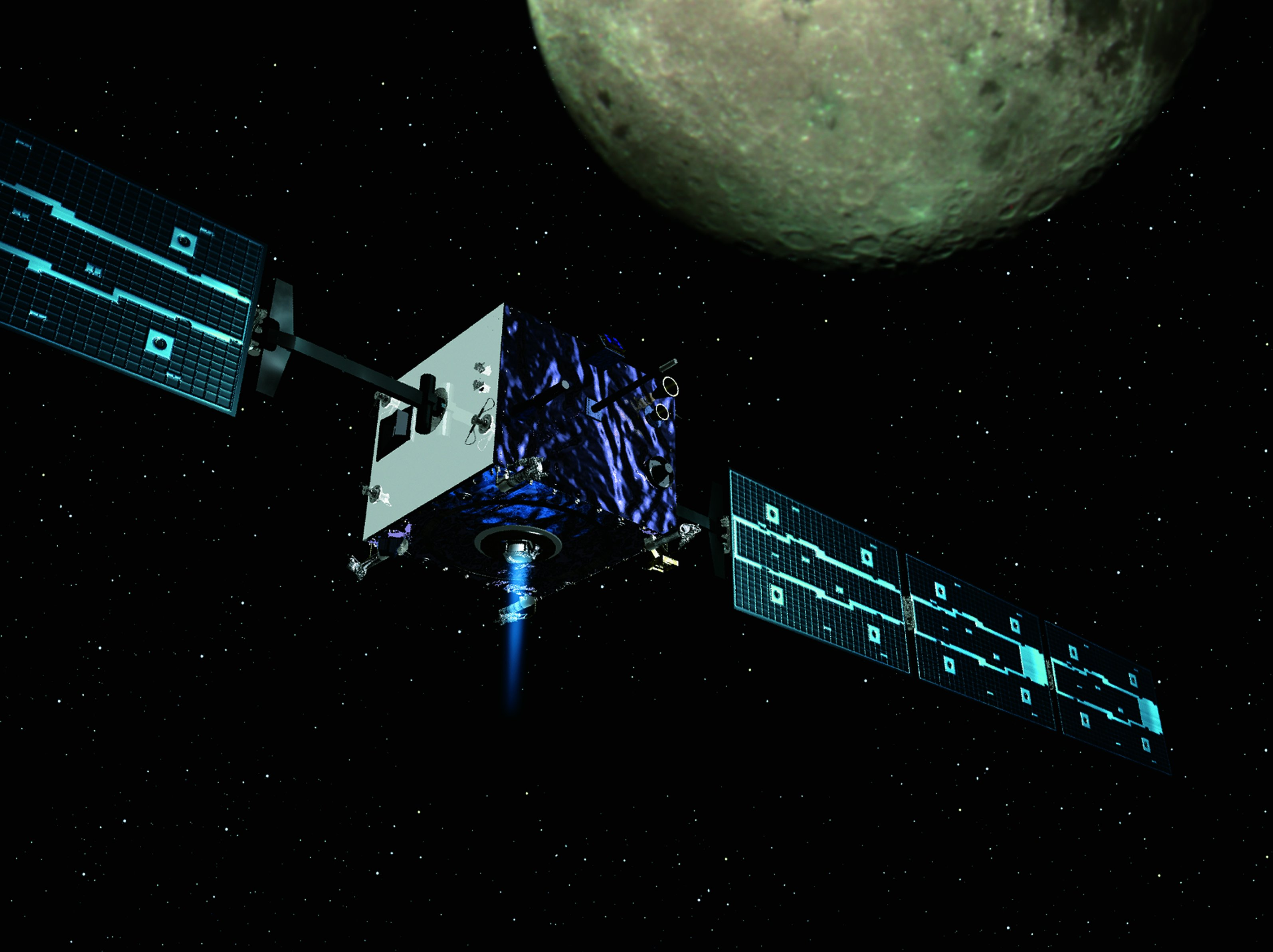 Artist's impression of ESA's SMART-1 mission at the Moon.SMART-1 was launched in September 2003, and arrived to the Moon on 15 November 2004, after a long spiralling around during which it tested new technologies, including solar-electric propulsion for future applications in interplanetary travels.The mission ended through lunar impact on 3 September 2006.